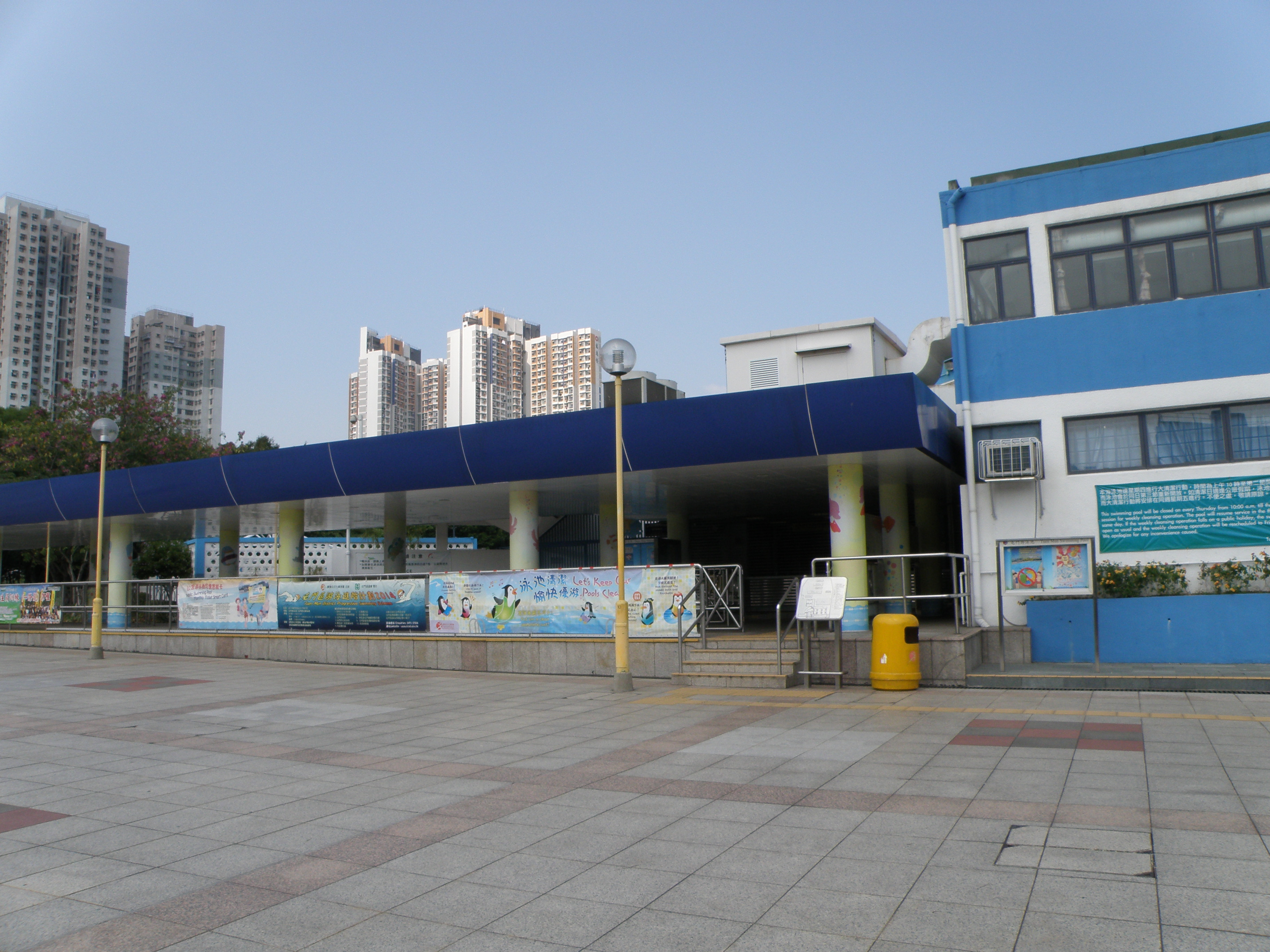 Tuen Mun Swimming Pool in Tuen Mun, Hong Kong.